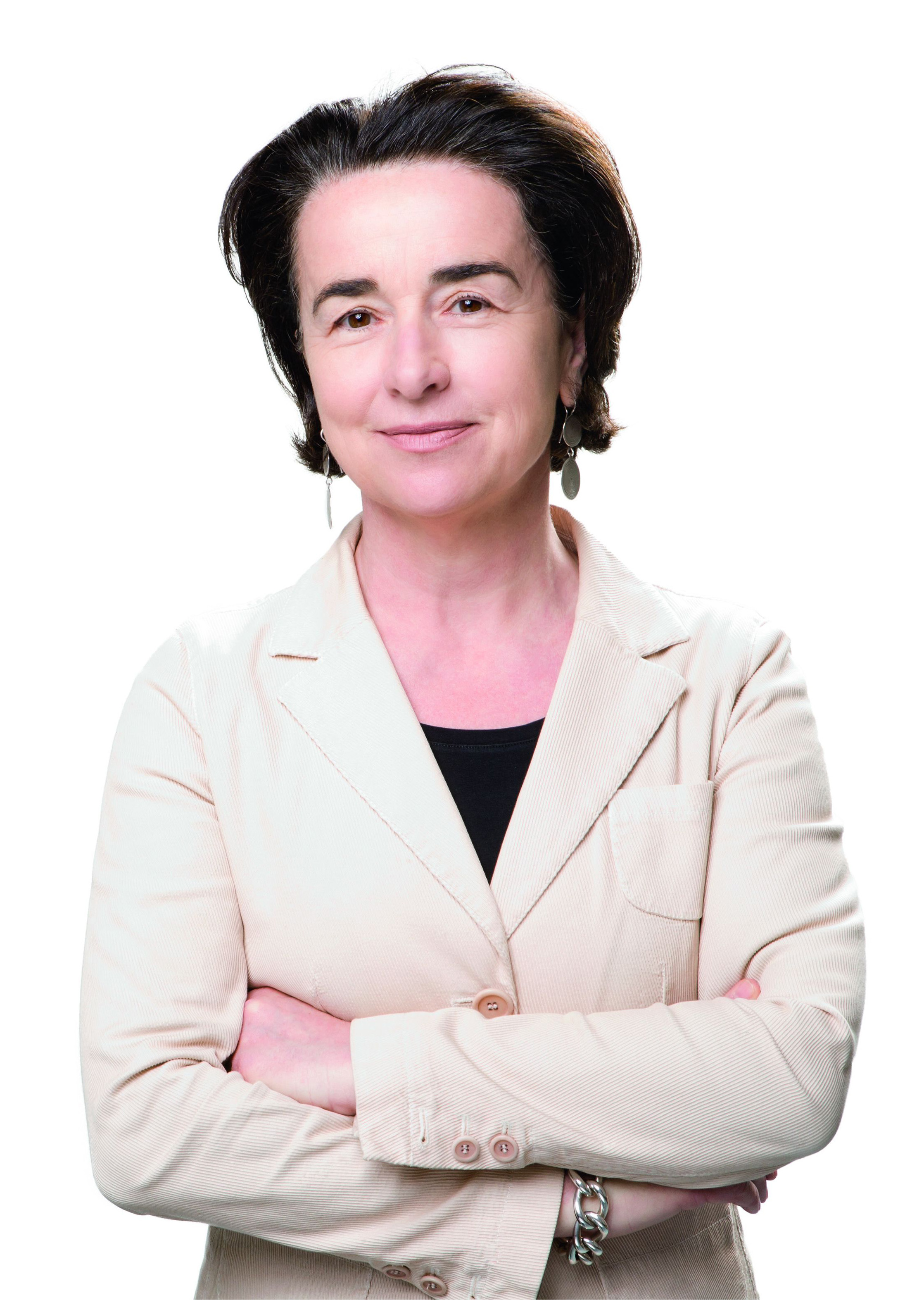 Chrisitiane Druml